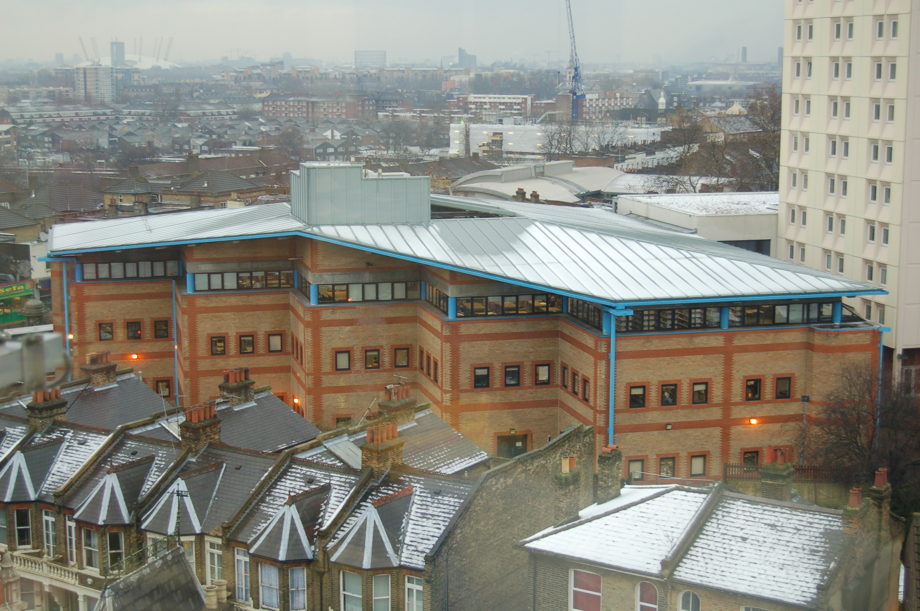 Rutherford Information Services Building, Goldsmiths. Photograph by Artybrad.